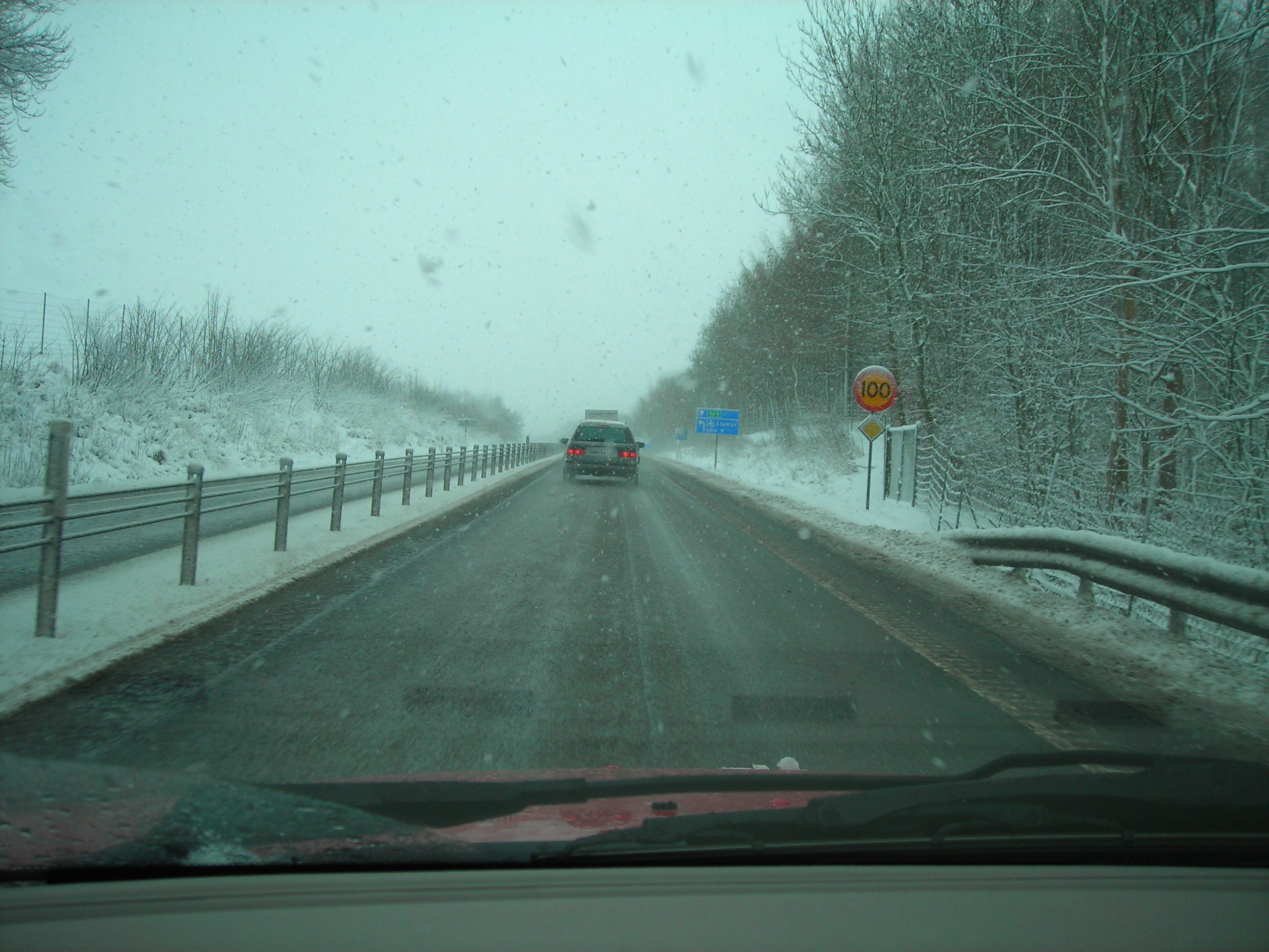 Road E65 just west of the roundabout linking E65 with Sturup Airport. Eastern direction. In Svedala kommun, Sweden.